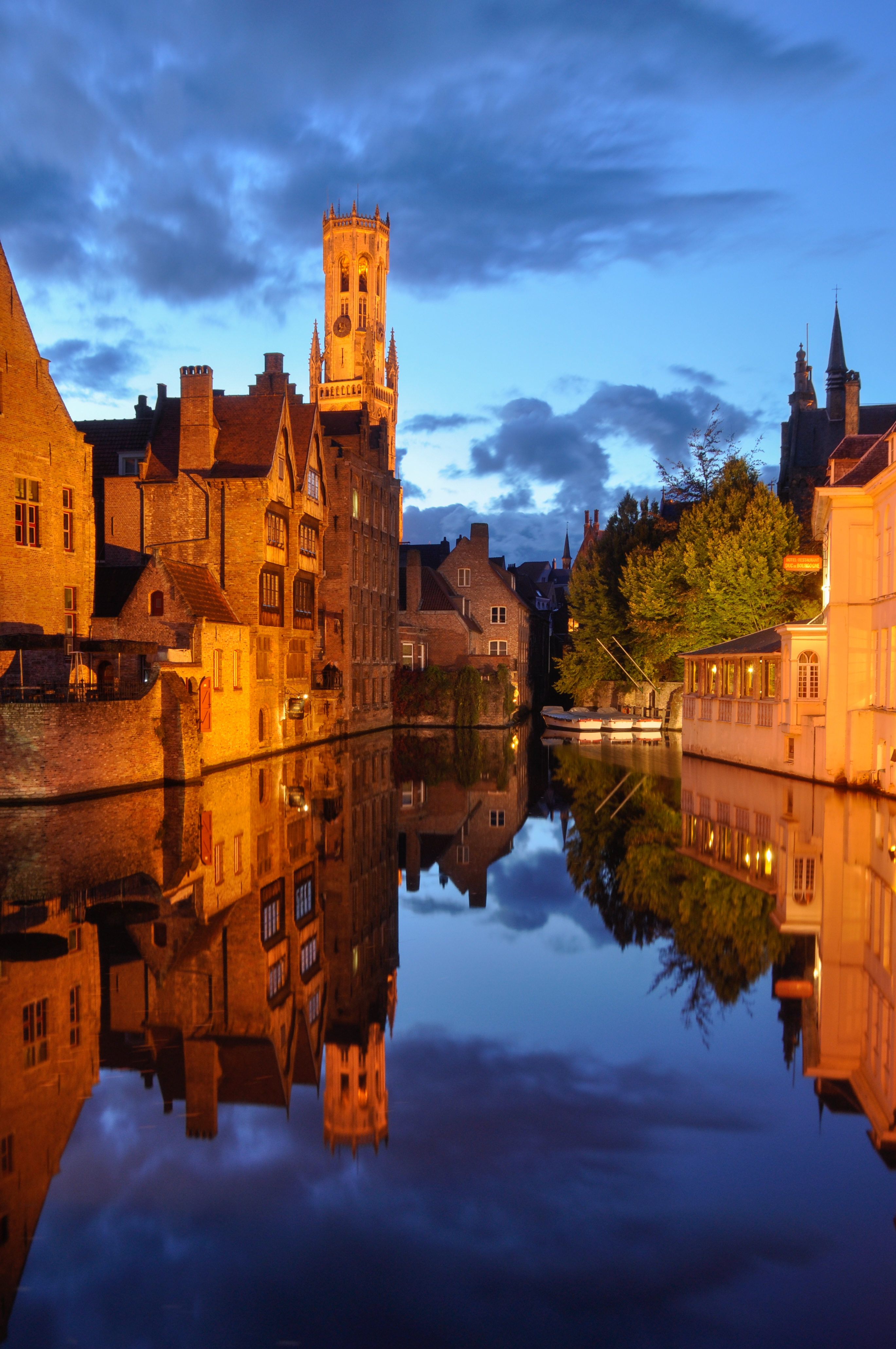 Bruges, View from Rozenhoedkaai, blue hour.